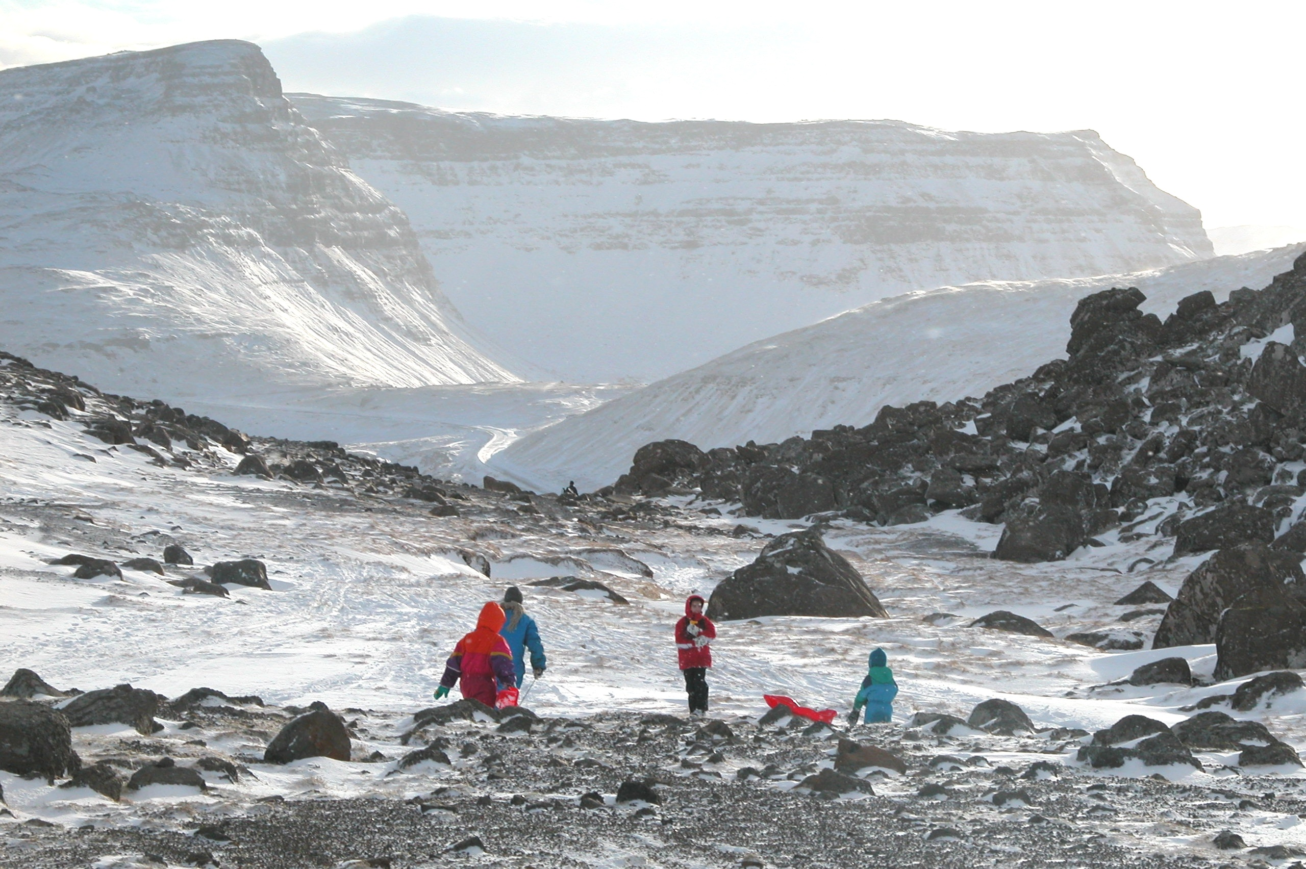 On the mountain Sornfelli on Streymoy, Faroe Islands.